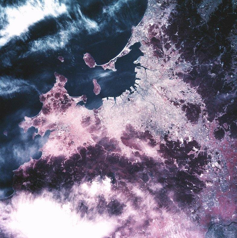 The astronaut photograph of Fukuoka, Kyushu, Japan